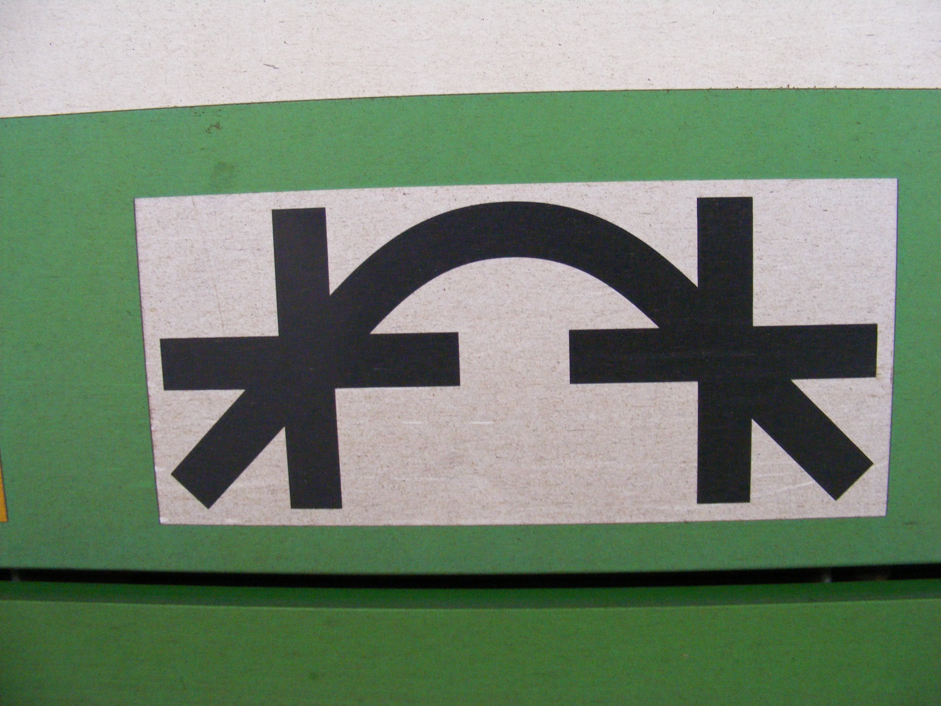 Hump prohibition ("Vehicle must not be rolled on hump yards"), Stadler Regio-Shuttle RS1 (Erfurter Bahn) VT 014 - “Unterfranken-Shuttle”.